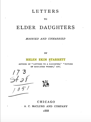 Letters to Elder Daughters, Married and Unmarried, By Helen Ekin Starrett